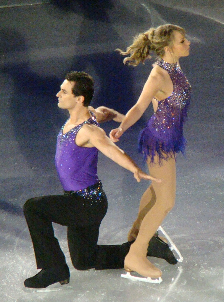 Chloe Madeley and Michael Zenezini on the Dancing on Ice tour at Manchester M.E.N Arena 1.30pm Sunday 1st May 2011.